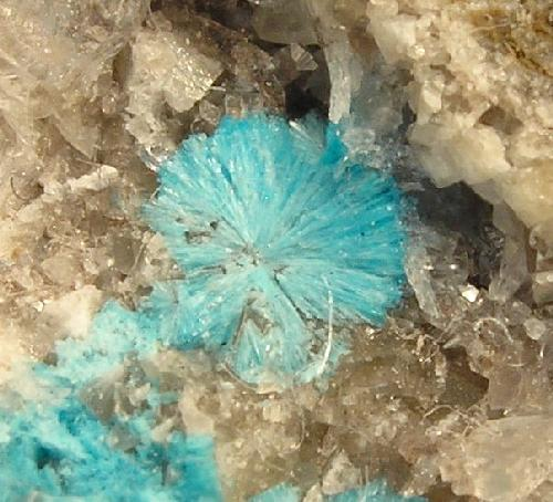 Cavansite, Stilbite Locality: Owyhee Dam, Lake Owyhee State Park, Malheur County, Oregon, USA (Locality at ) Size: 7 x 5 x 2.5 cm. An attractive plate of beautiful Cavansite crystals with Stilbite. The Cavansites are in flat radial growths that look like morning glories. Really, these small mineral "flowers" (from 1-2 mm) are quite spectacular aesthetically. First described in 1973, the Owyhee Dam Cavansites were the be-all and end-all until the great Indian discoveries of the late 1980's. Therefore, in addition to nice aesthetics, this piece has great historical and scientific importance. None have been collected in many years, to my knowledge. Ex. Charlie Key.